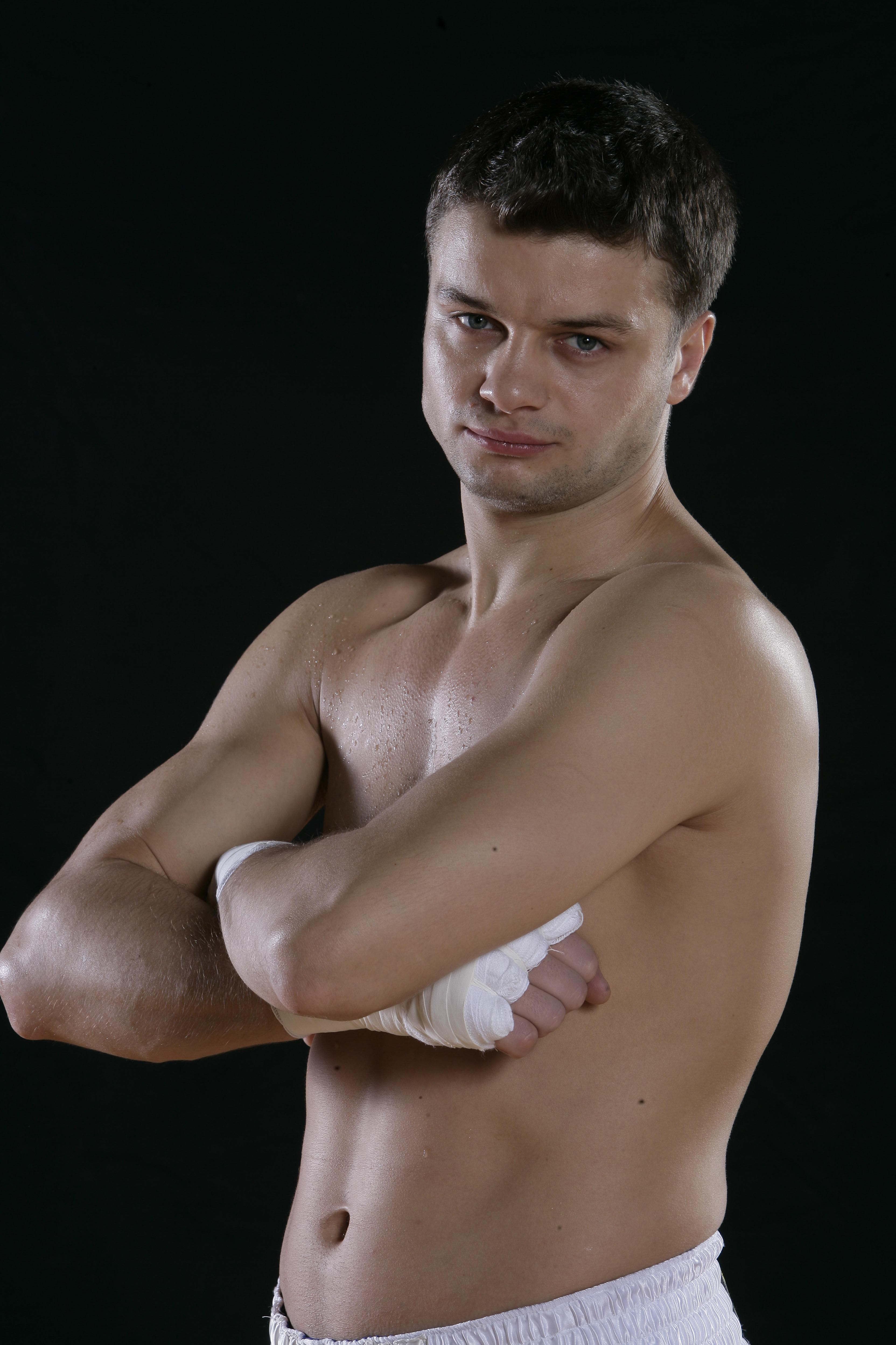 Profile picture of InterBox's Romanian boxer Jo Jo Dan